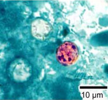 This photomicrograph of a fresh stool sample, which had been prepared using a 10% formalin solution, and stained with modified acid-fast stain, revealed the presence of four Cyclospora cayetanensis oocysts in the field of view. Compared to wet mount preparations, the oocysts are less perfectly round and have a wrinkled appearance due to this method of fixation. Most importantly, the staining is variable among the four oocysts. Cyclospora infects the small intestine, and usually causes watery diarrhea with frequent, sometimes explosive bowel movements. Other symptoms can include loss of appetite, substantial loss of weight, bloating, increased gas, stomach cramps, nausea, vomiting, muscle aches, low-grade fever, and fatigue. Some people with Cyclosporiasis do not show any symptoms.